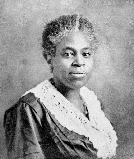 A restoration of a photo of author Delilah Beasley. Restoration included improving contrast, removing damage, and dodging the background slightly.